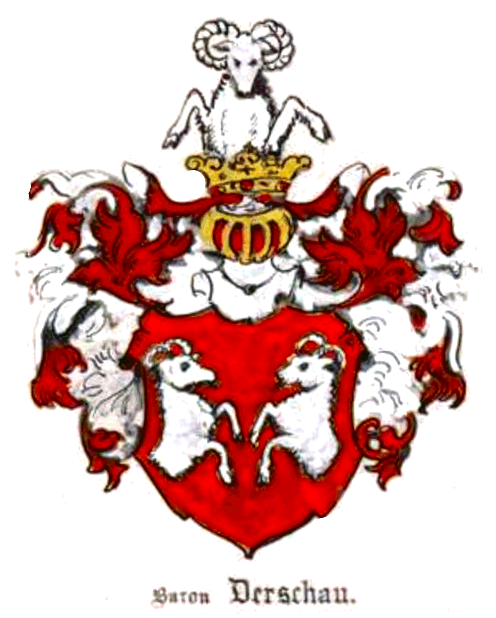 Coat of Arms of Baron Derschau family